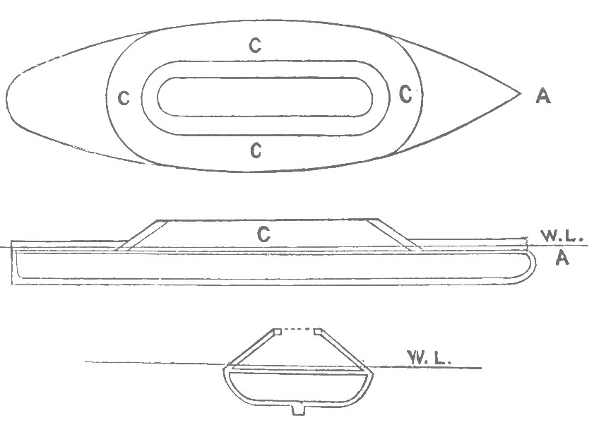 Three images extracted as one from public domain volume 19 p.30 of the Southern Historical Society Papers.